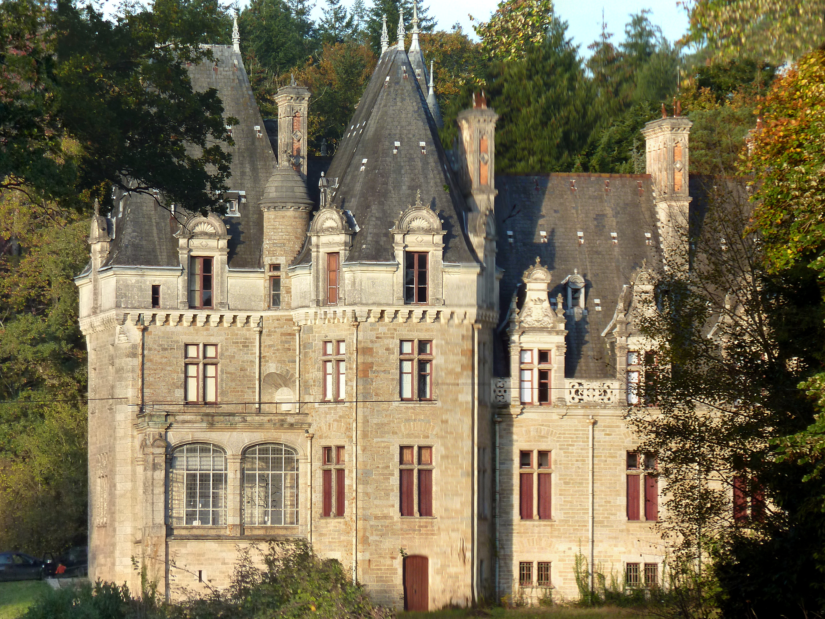 Castle of Brossay, Renac, Ille-et-Vilaine, Brittany, France.